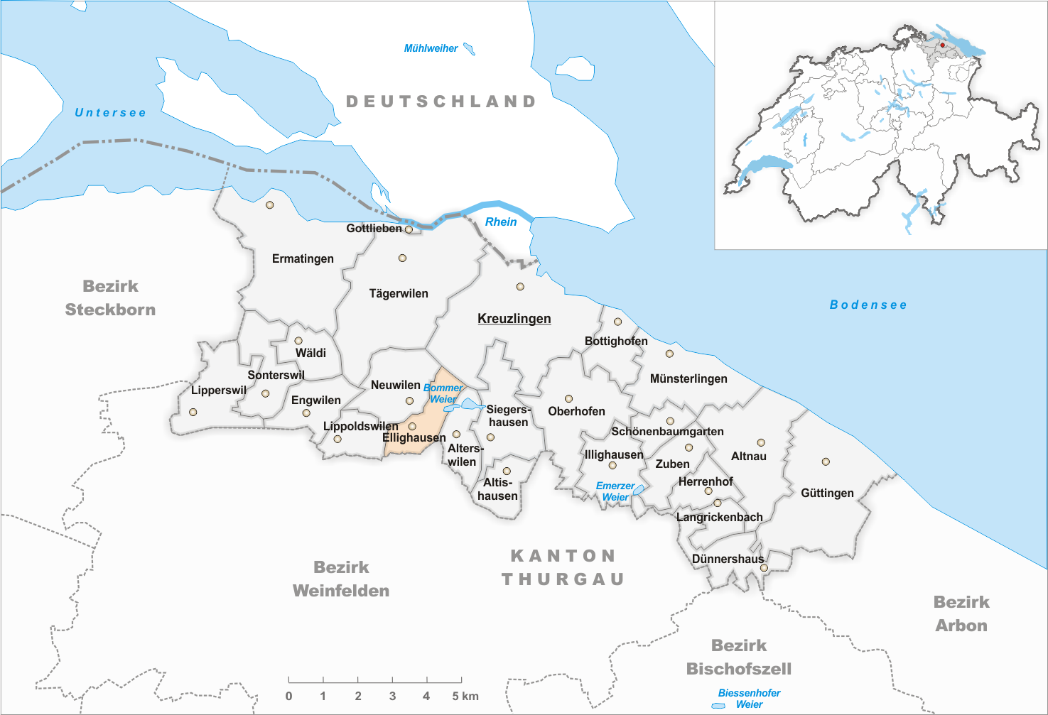 Municipality Ellighausen